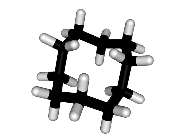 Chemical structure of cyclodecane in a low energy conformation according to: "Conformational Study of Cyclodecane and Substituted Cyclodecanes by Dynamic NMR Spectroscopy and Computational Methods" M. Pawar, Sumona V. Smith, Hugh L. Mark, Rhonda M. Odom, and Eric A. Noe J. Am. Chem. Soc., 1998, 120 (41), pp 10715–10720